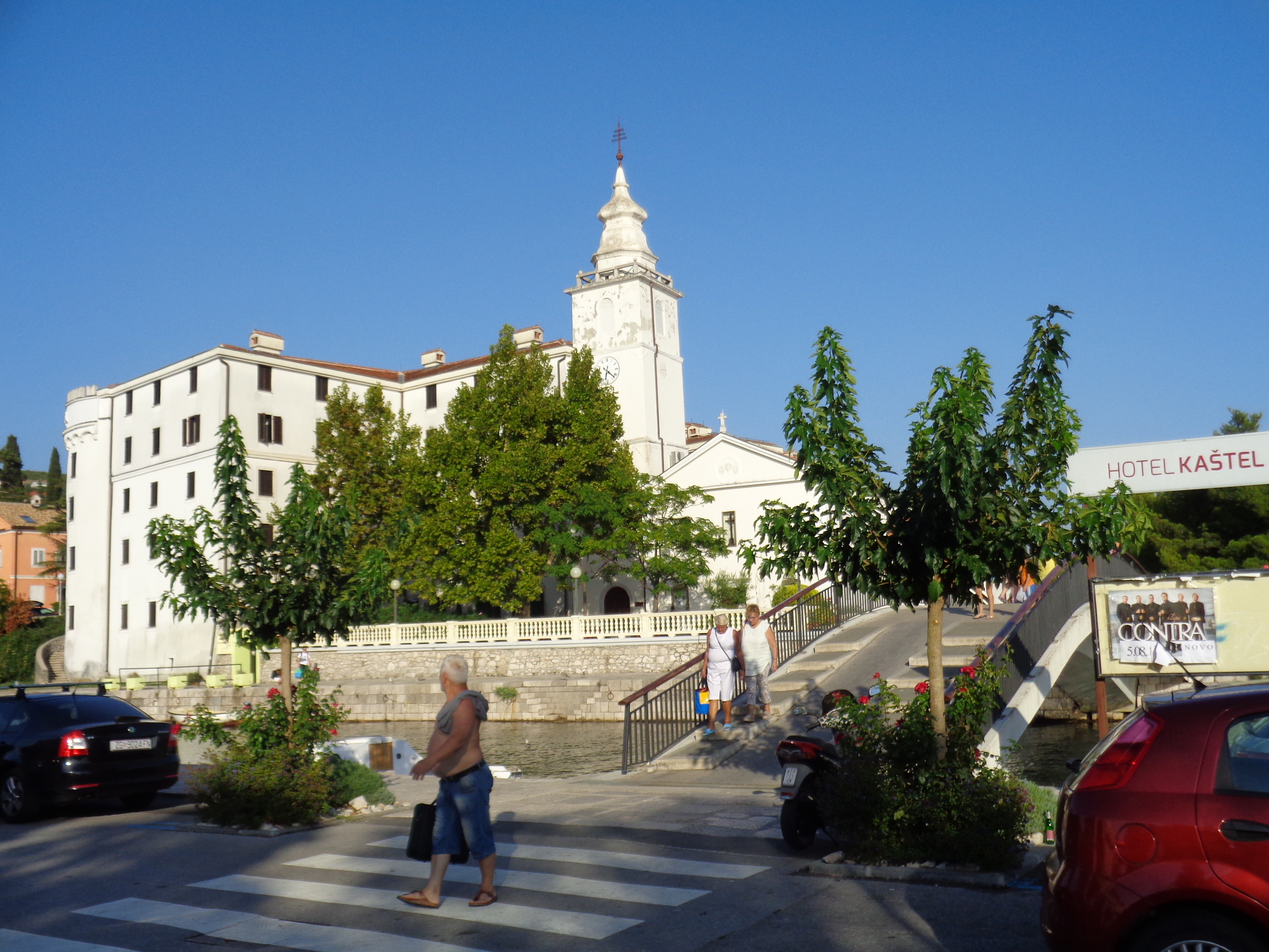 "Kaštel" Hotel in Crikvenica, Primorje-Gorski kotar County, Croatia